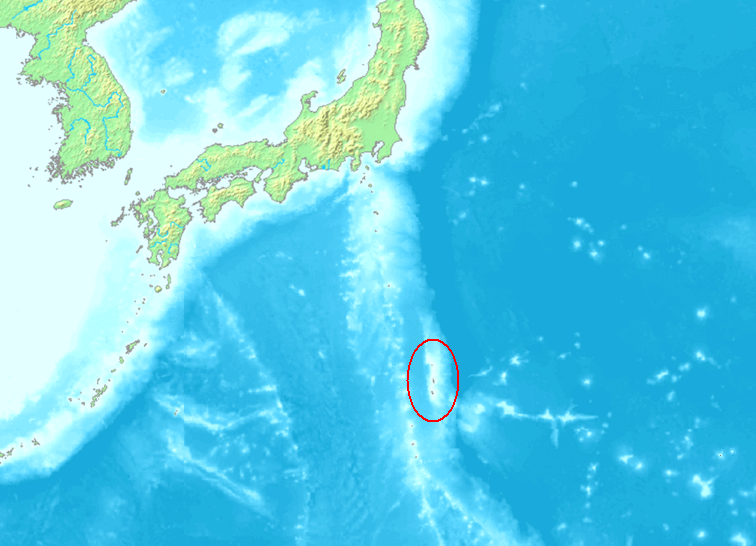 Location of Ogasawara Islands (Ogasawara Gunto), Japan